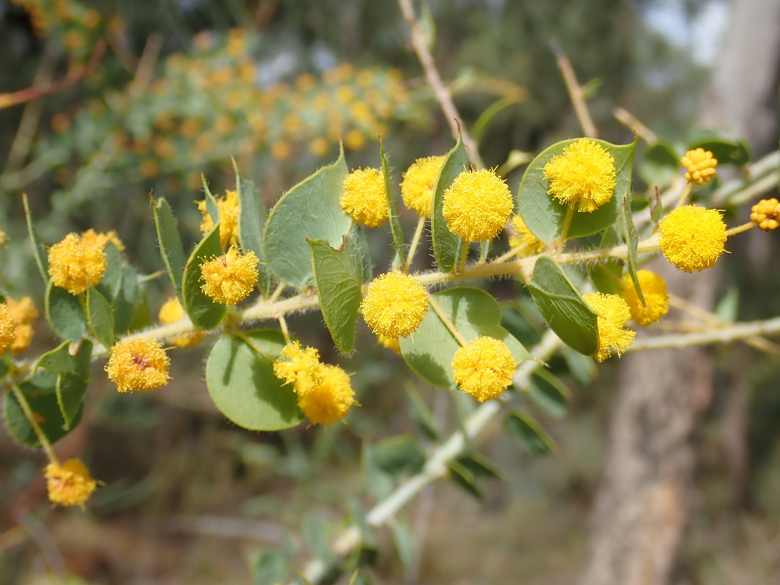 Acacia sertiformis, Newell Highway, out of Coonabarrabran